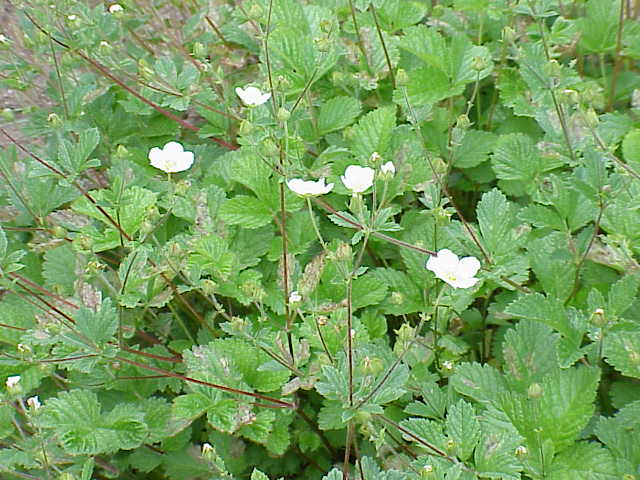 Species: Potentilla fragiformis Family: Rosaceae Image No. 3